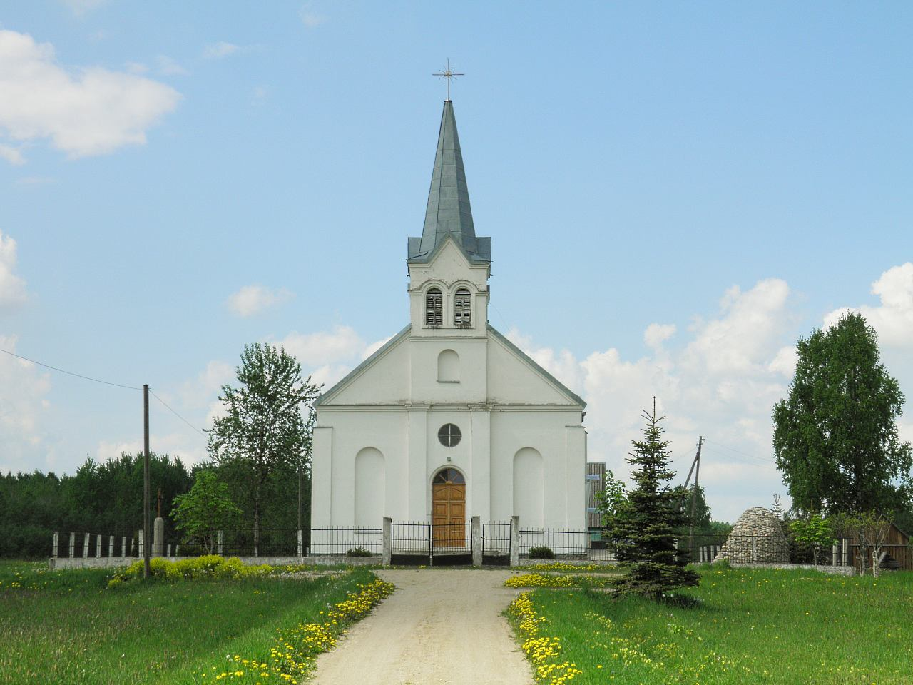 Eglaine Virgin Mary - Mother of the Church Roman Catholic ChurchLatviešu: Eglaines Jaunavas Marijas - Baznīcas Mātes Romas katoļu baznīca